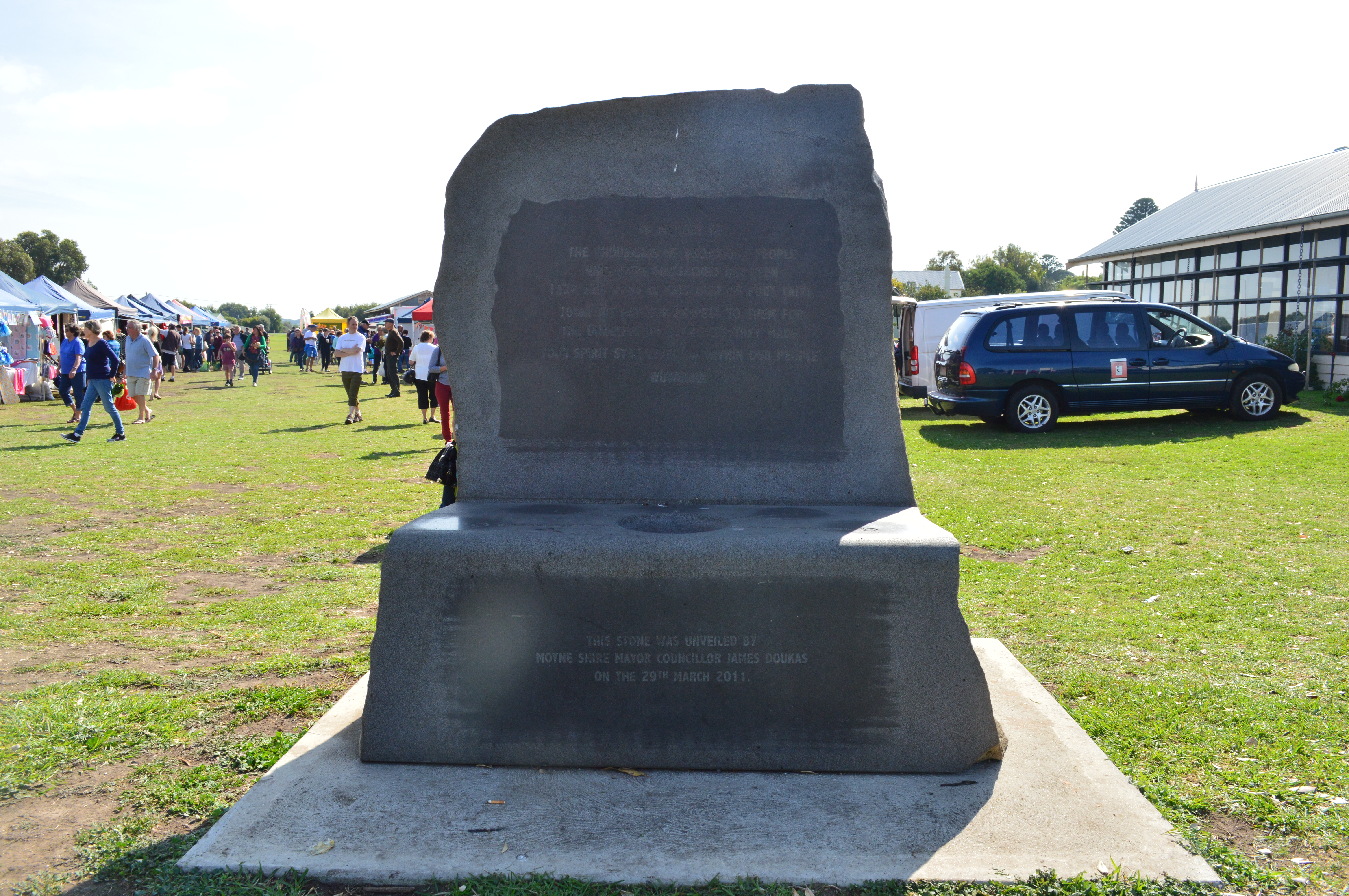 Monument commemorating the massacre of Aboriginal people at Port Fairy, Victoria